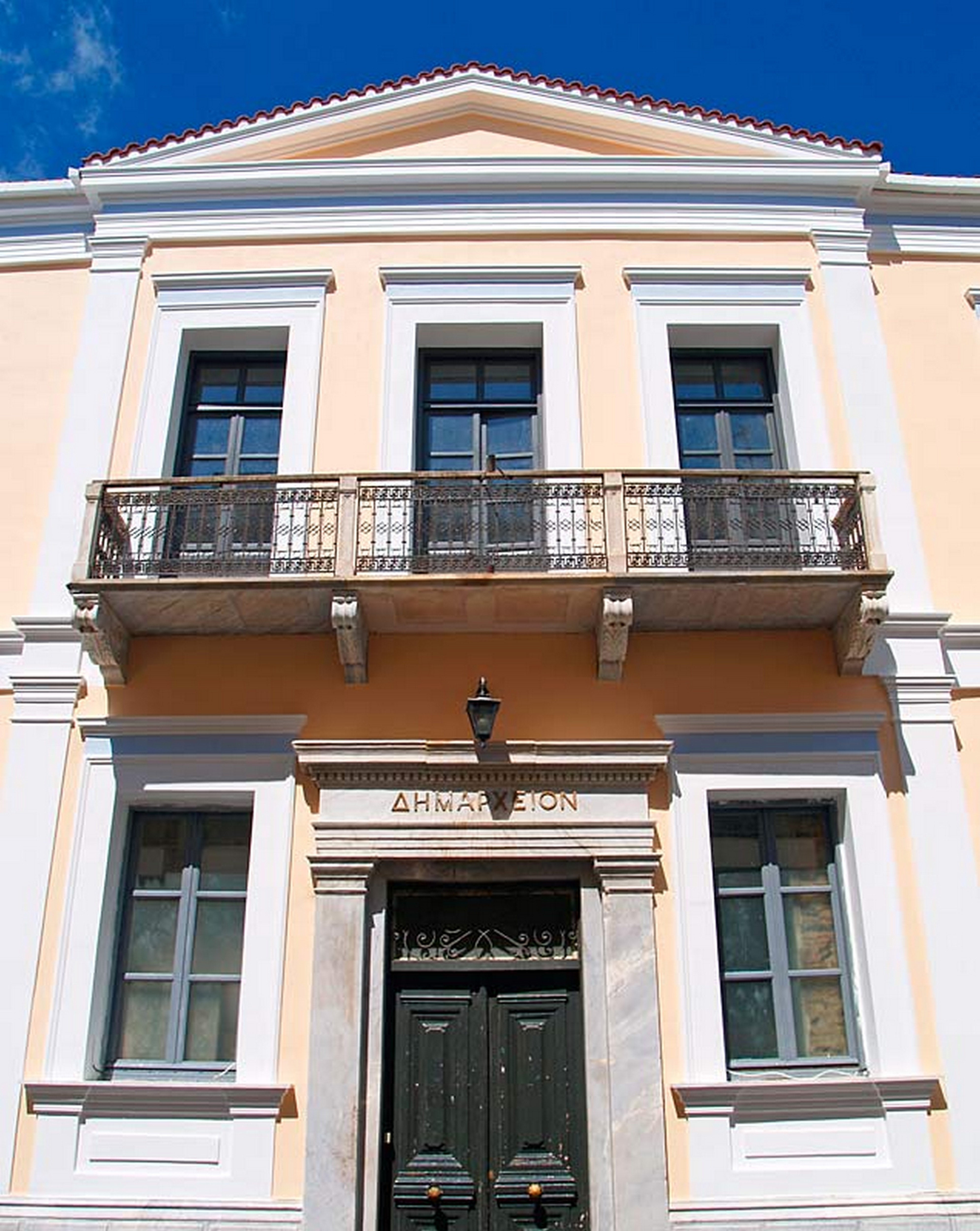 The former town hall of Tripoli, Arcadia